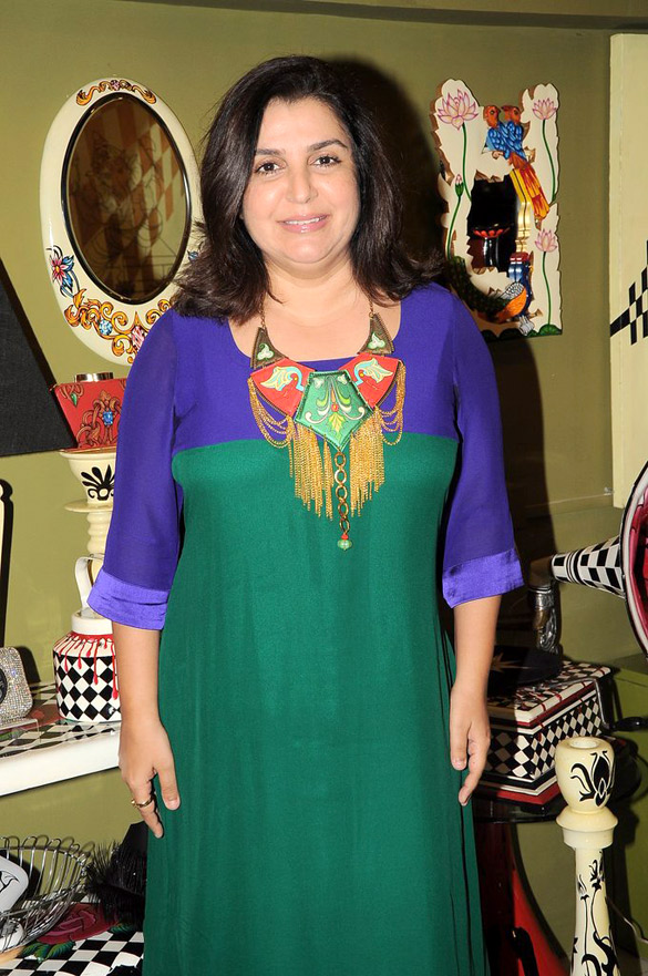 Farah Khan at the opening of Fluke store